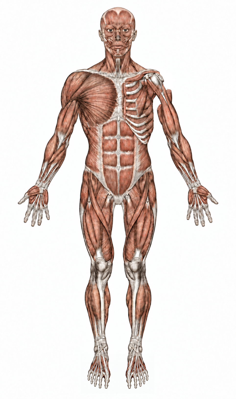 Collage of varius Gray's muscle pictures by Mikael Häggström